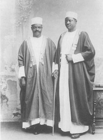 Ugandan prime minister Apolo Kagwa at right, with his secretary Ham Mukasa